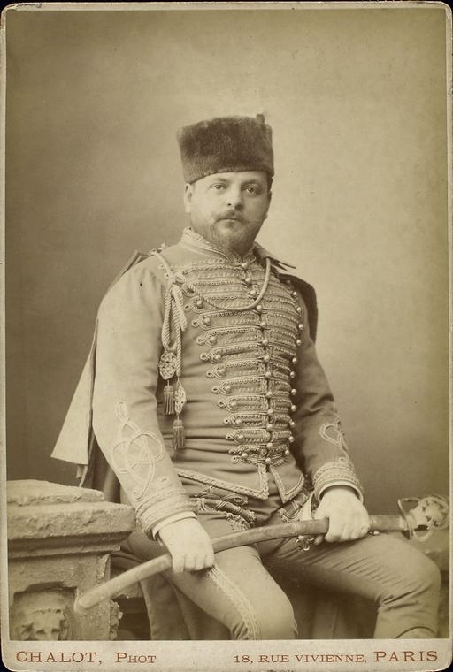 Photo portrait of Greek-French actor Jacques Damala (1855-1889)